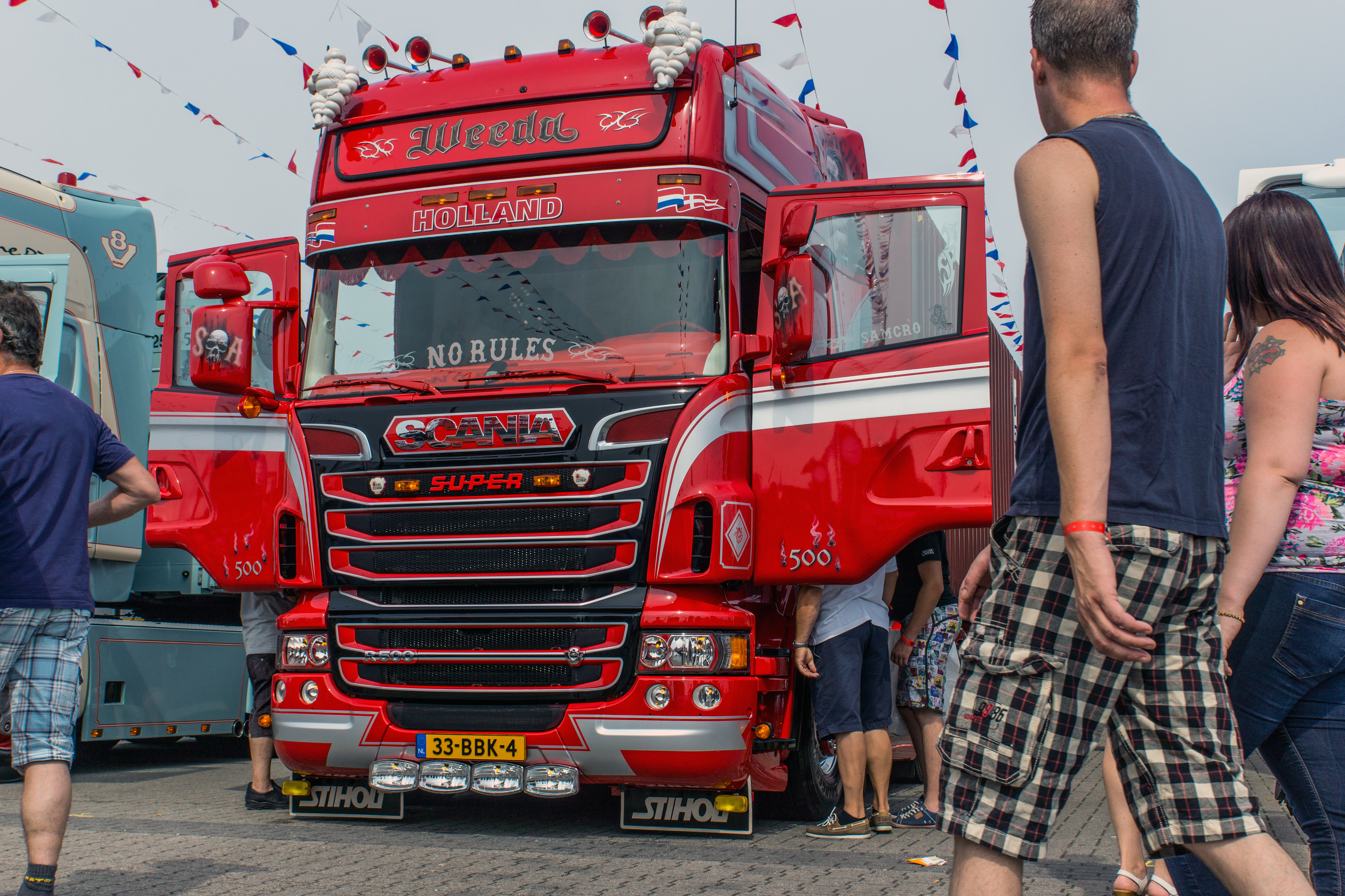 Showstraat Truckstarfestival 2013